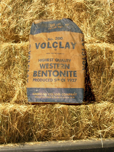 Bulk sodium bentonite clay used for mud wrestling.